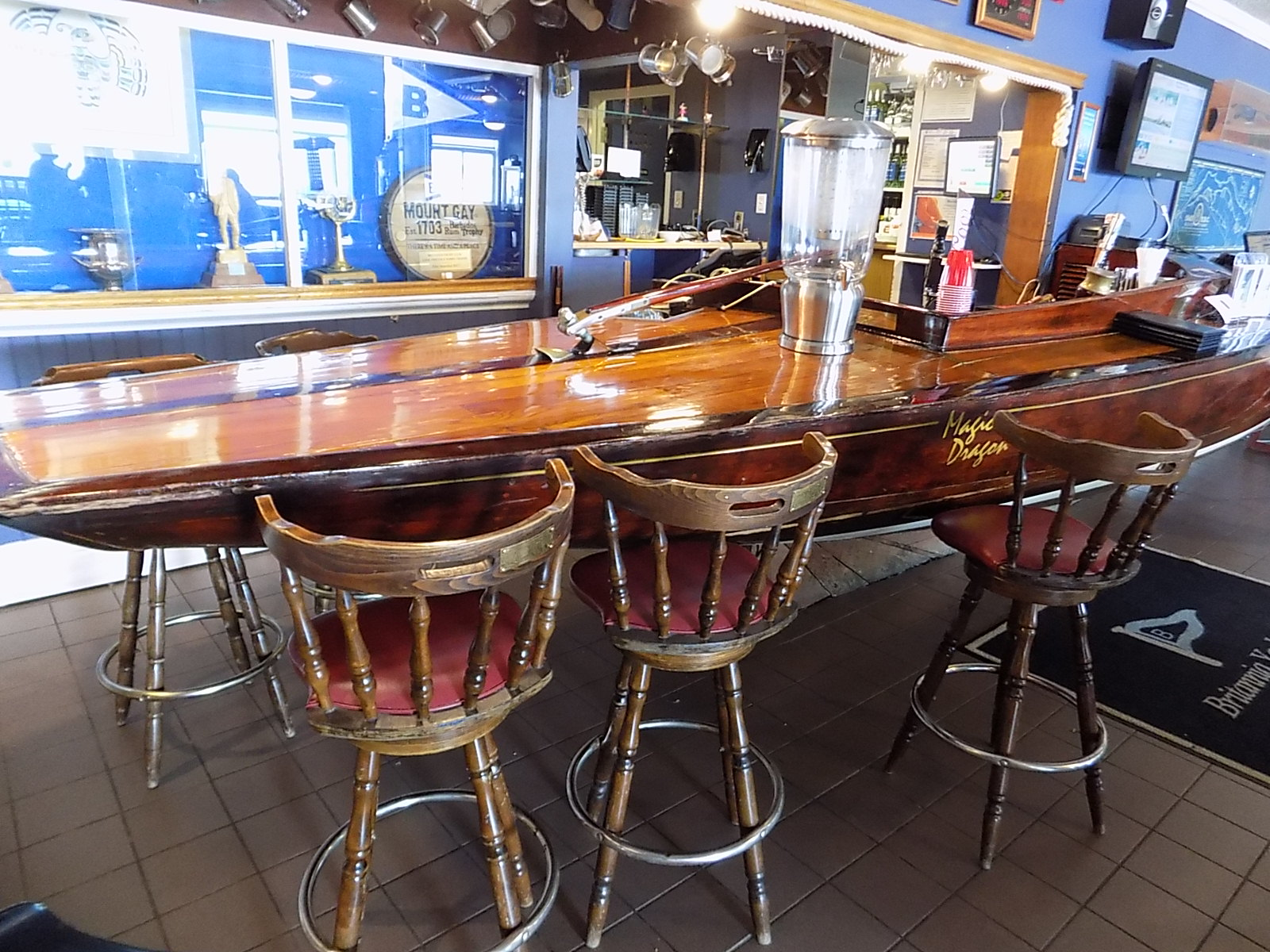 Britannia yacht club pub in Ottawa, Ontario